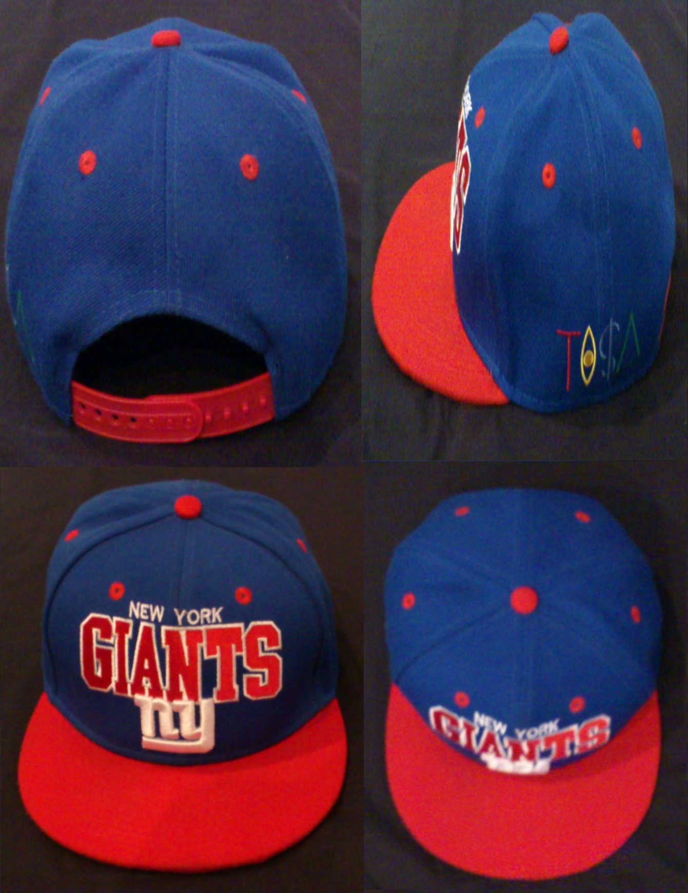 New York Giants hat (All views)